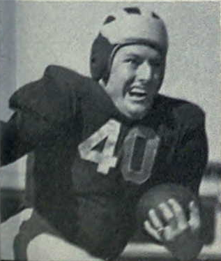 Photograph of Bob Nussbaumer